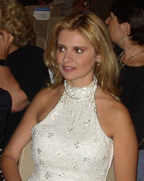 Italian actress Debora Caprioglio at TFF 2003